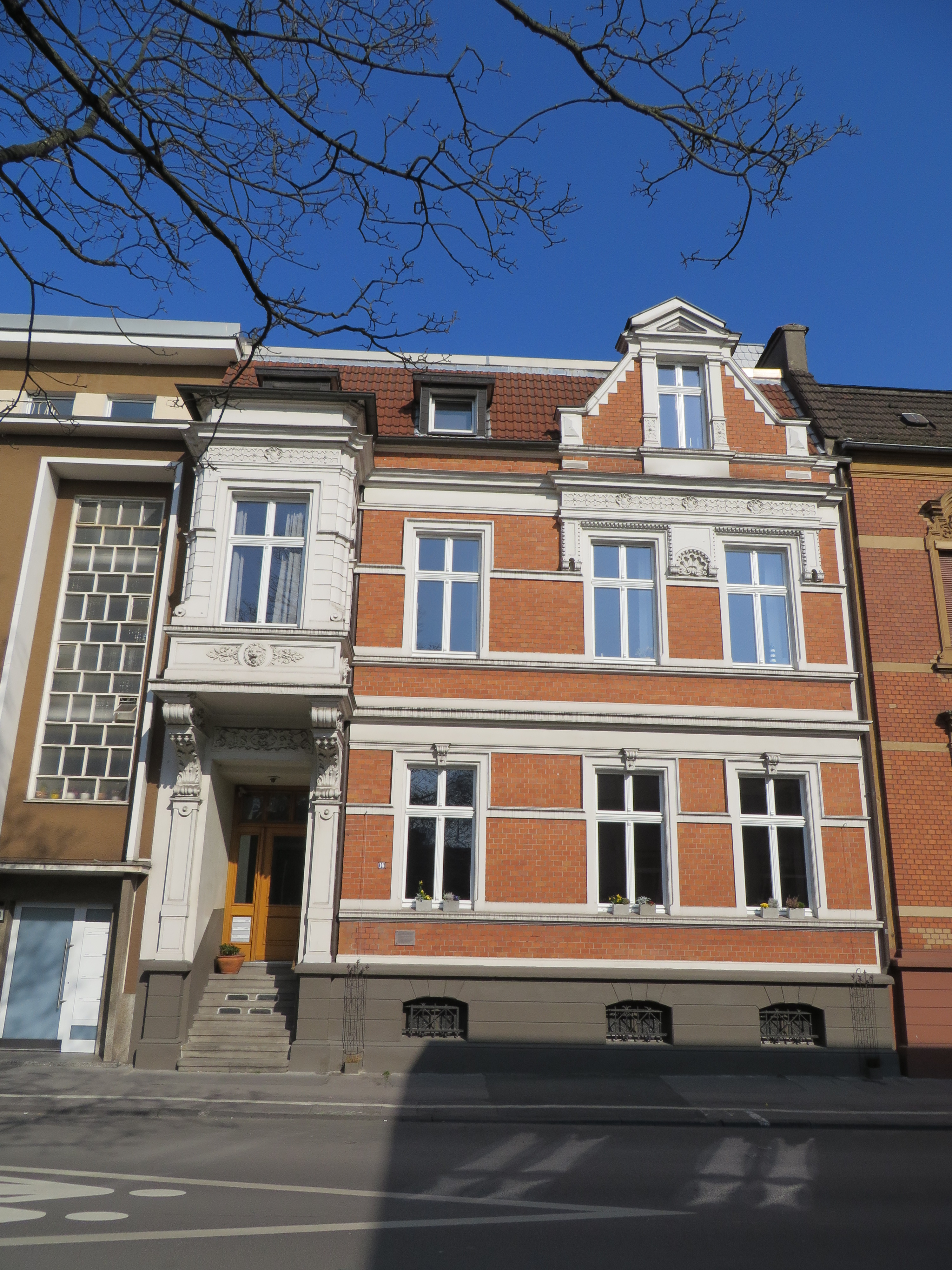 House Nordstraße 16 in Witten, Germany